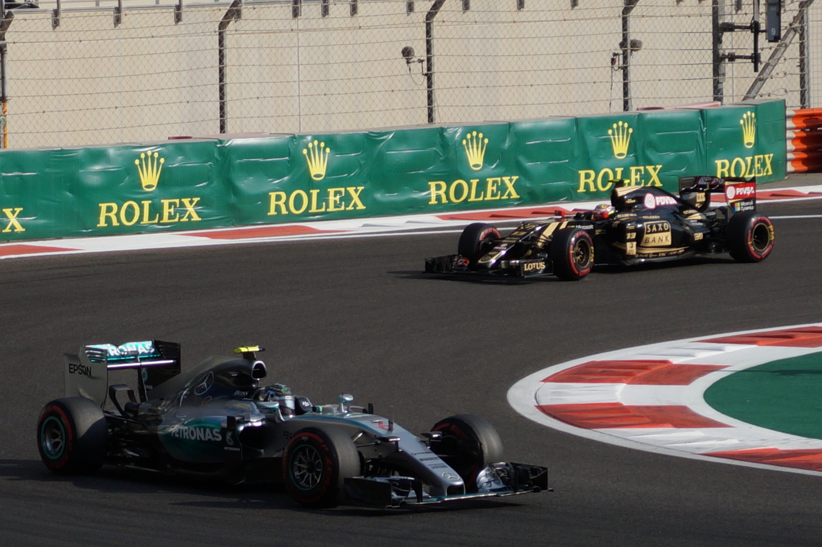 Nico Rosberg and Romain Grosjean at the 2015 Abu Dhabi Grand Prix